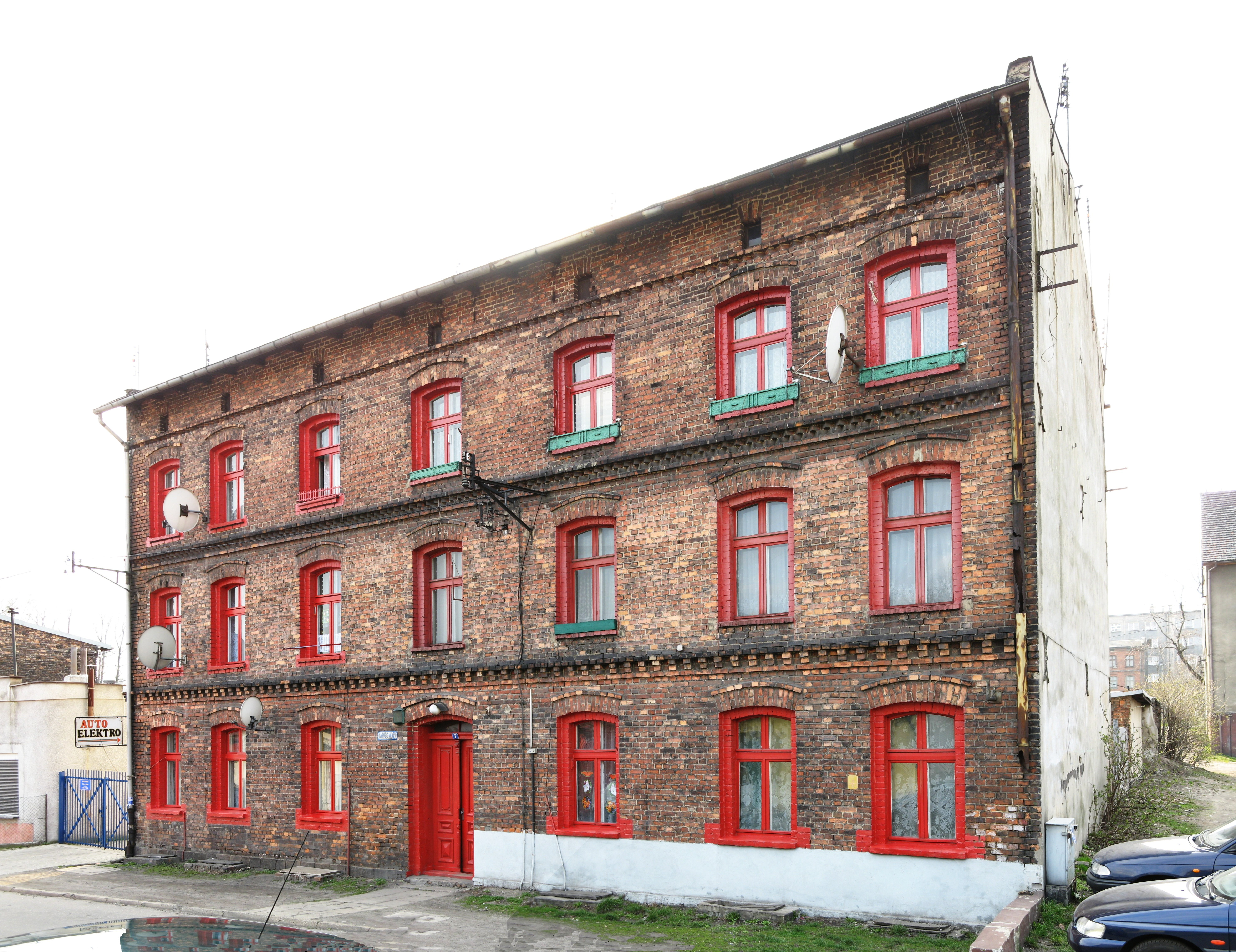 Familok in Wirek, Ruda Śląska, composed of 15 images using hugin